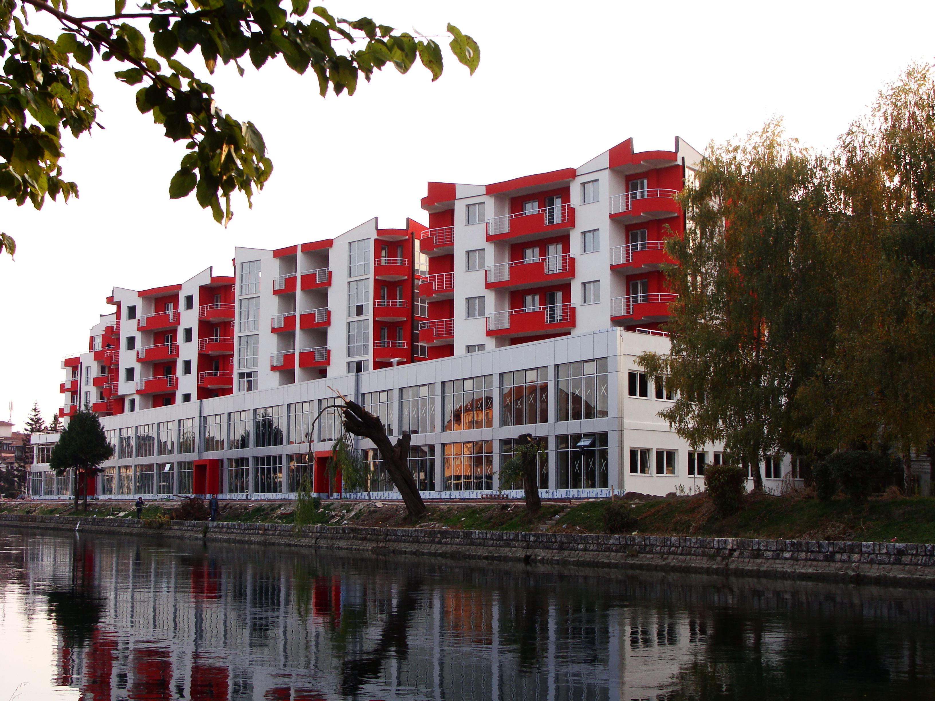 Struga, a town by the Ohrid lake